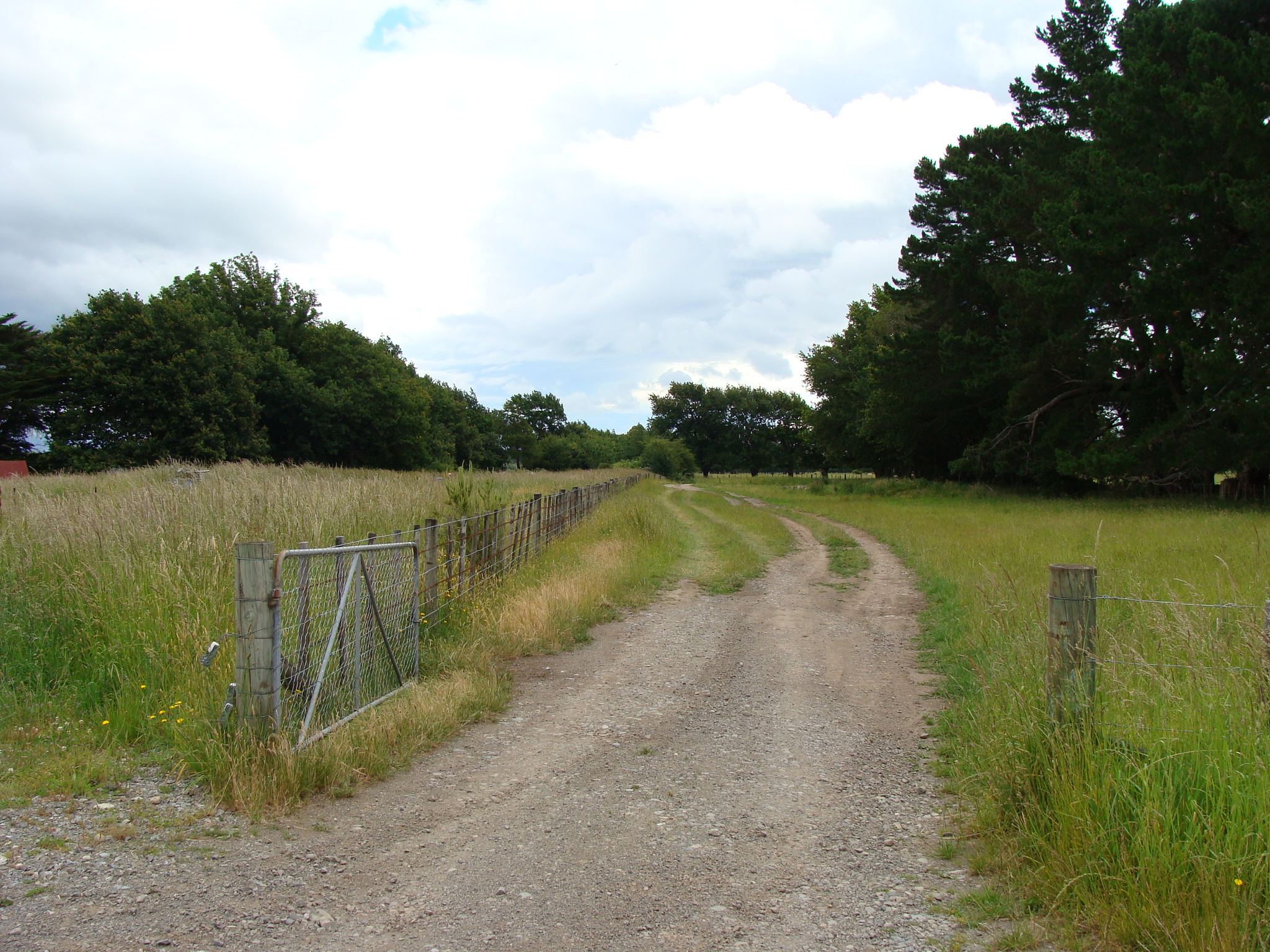 Clareville railway station. This road formerly provided access to the station's loading bank from Chester Road.